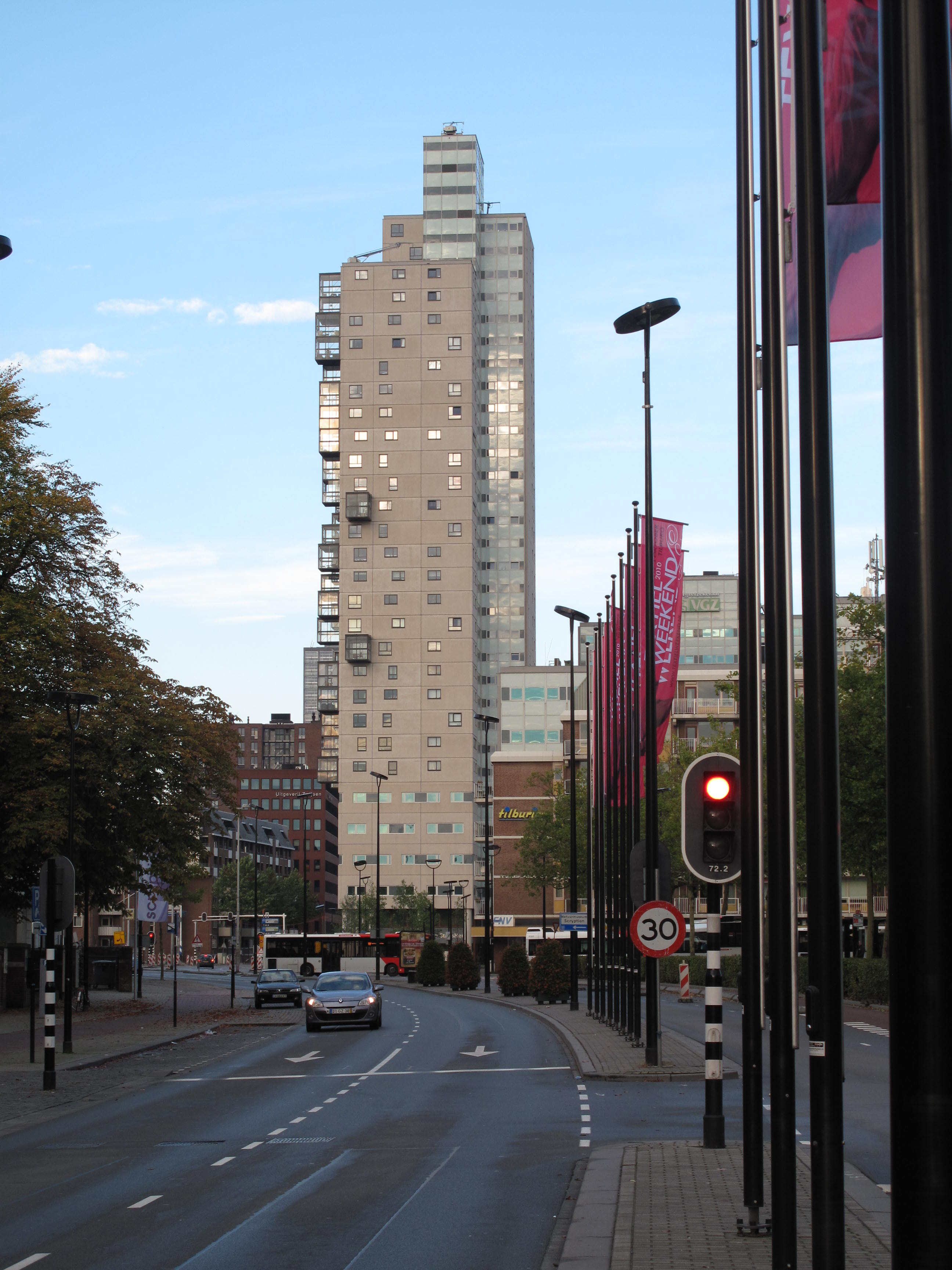 Tilburg, modern block of flats